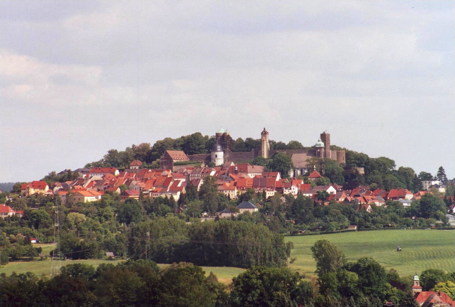 This image shows Stolpen and Stolpen castle in Saxony, Germany.